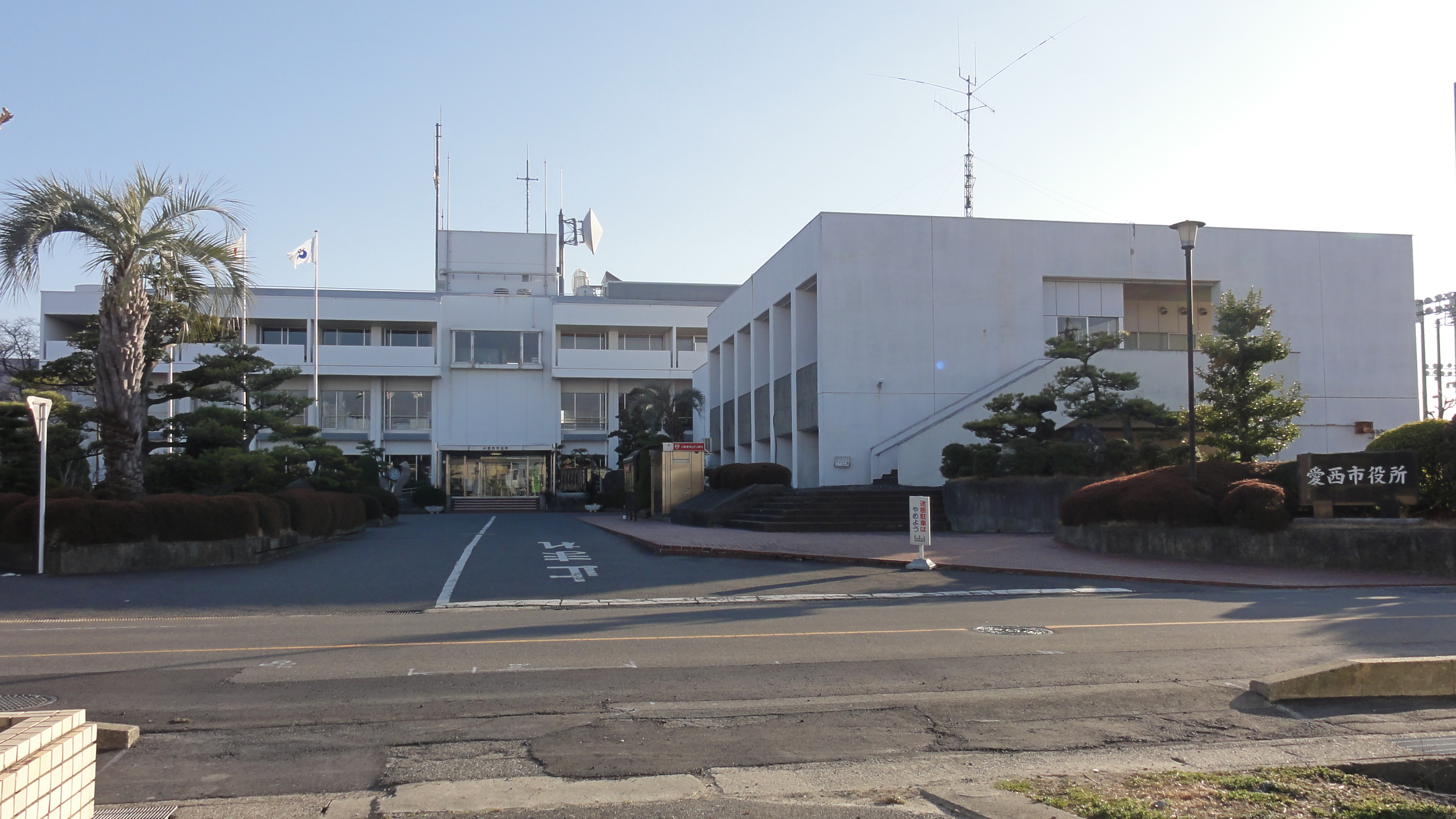 Aisai city office, Aichi prefecture, Japan